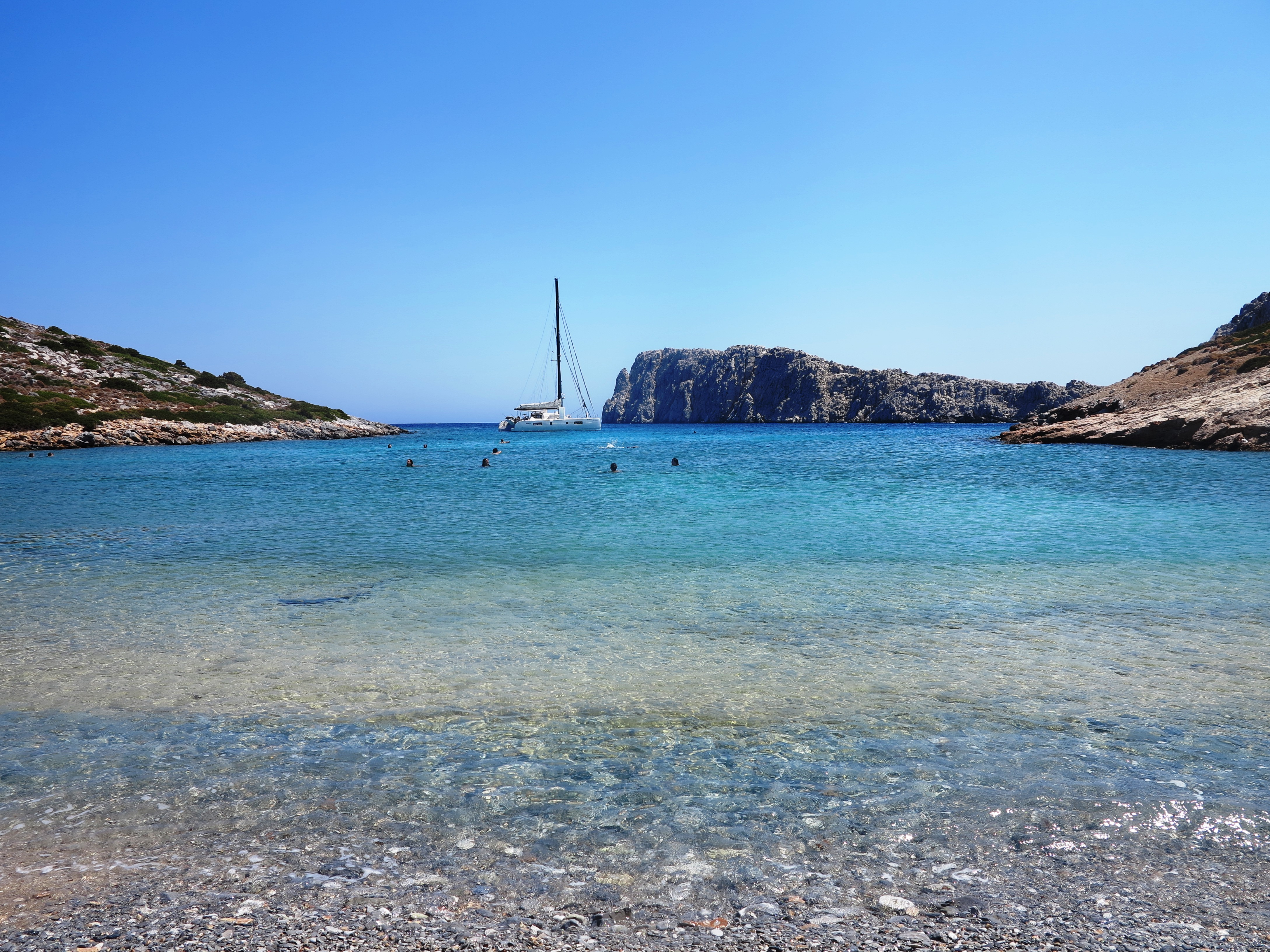 This is a photography of Natura 2000 protected area with ID GR4210021